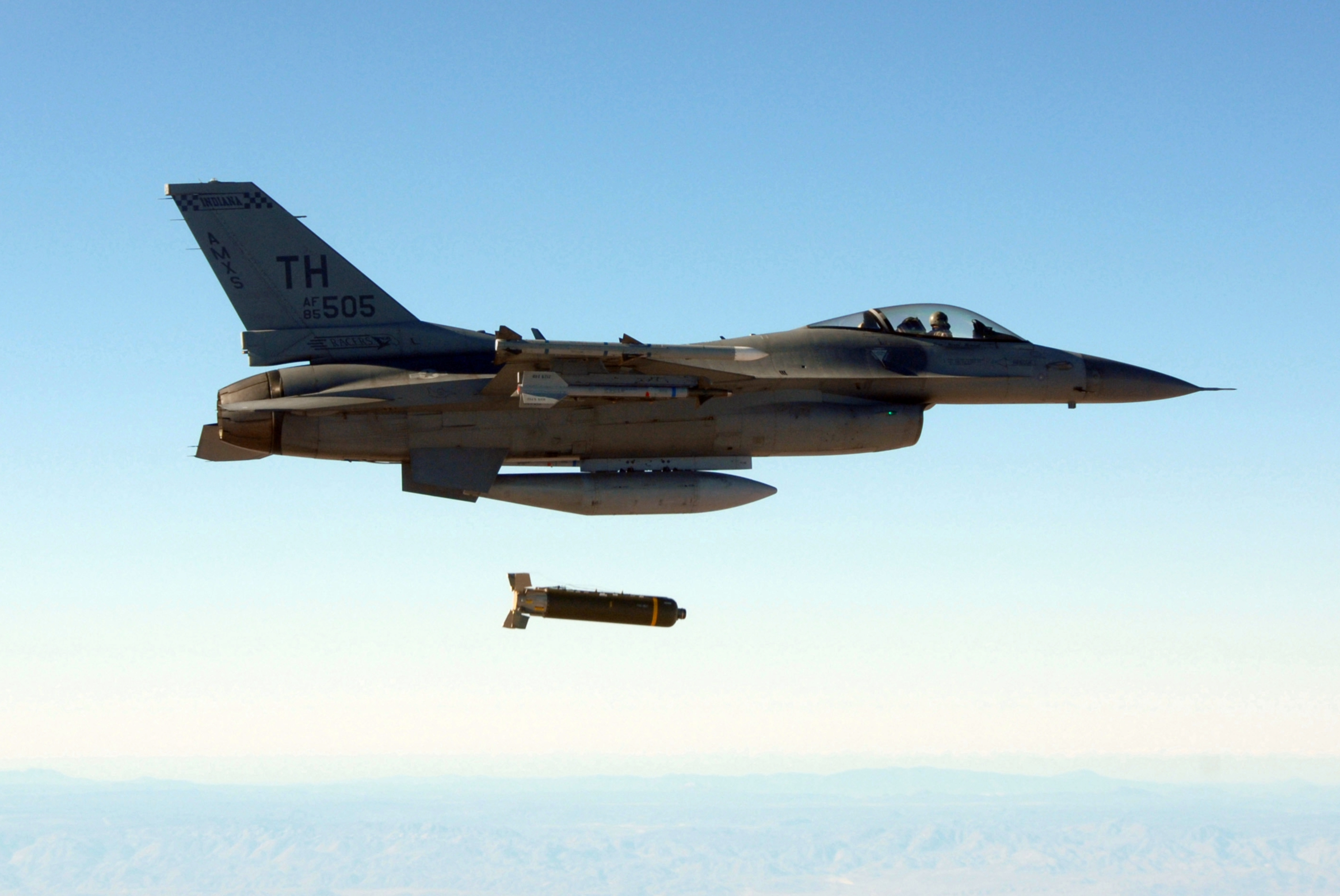 A U.S. Air Force General Dynamics F-16C Block 30B Fighting Falcon fighter (s/n 85-1505) from the 113th Fighter Squadron, 181st Fighter Wing, Indiana Air National Guard, drops a cluster bomb unit over its target during sortie at Davis-Monthan Air Force Base, Arizona (USA), on 17 January 2007.